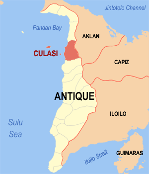 Map of Antique showing the location of Culasi